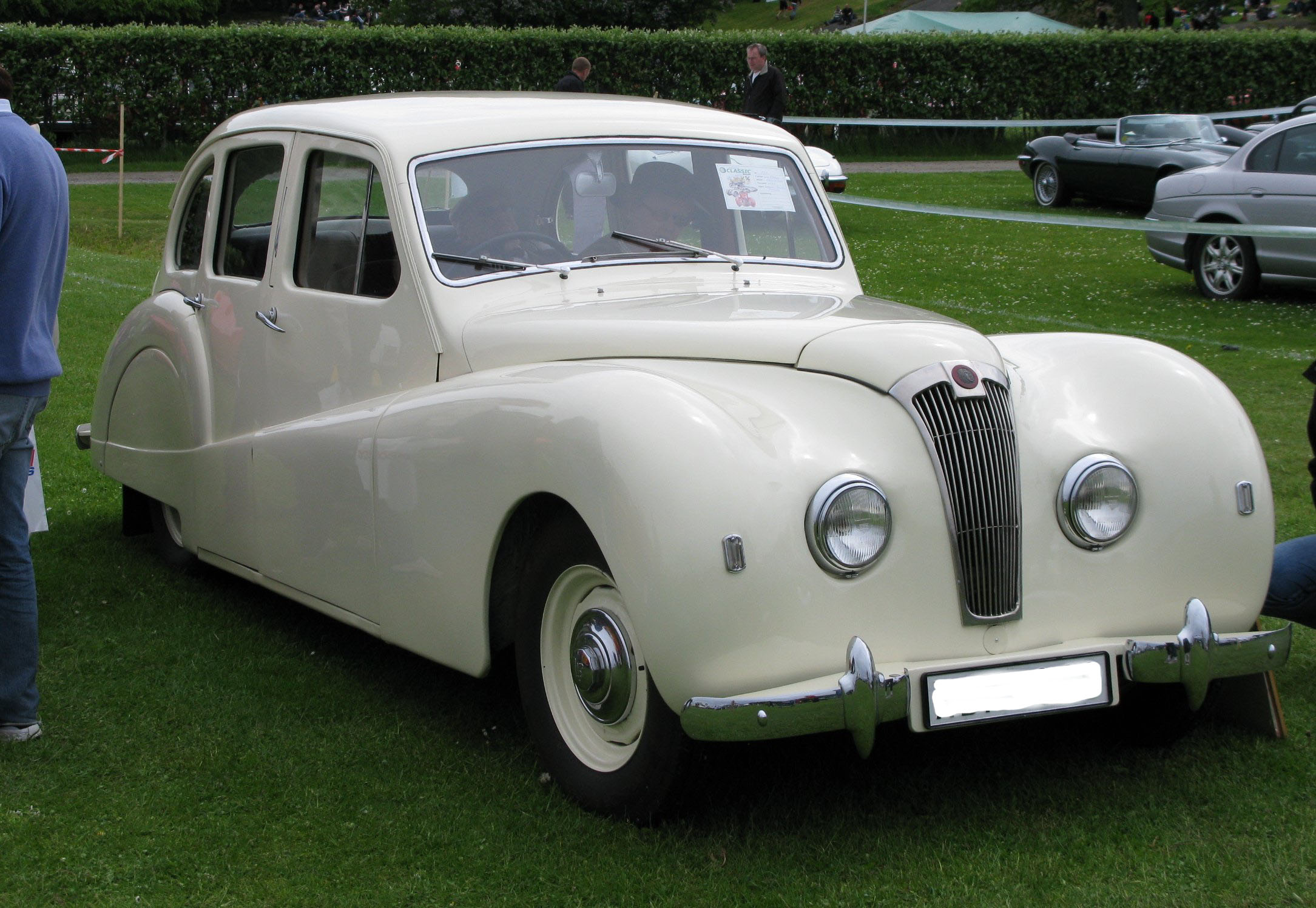 1949 Lea-Francis 14/70 six-light saloon, chassis no 4154. This streamlined version of the Fourteen was introduced at Earls Court in 1948 and built until 1951. While it looked more modern, weight and price counted against it. Around 200 were built all in all. Event: Tjolöholm Classic Motor 2009